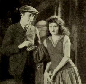 Still from the American film Dream Street (1921) starring Charles Emmett Mack and Carol Dempster, on page 31 of the February 1922 Photoplay.